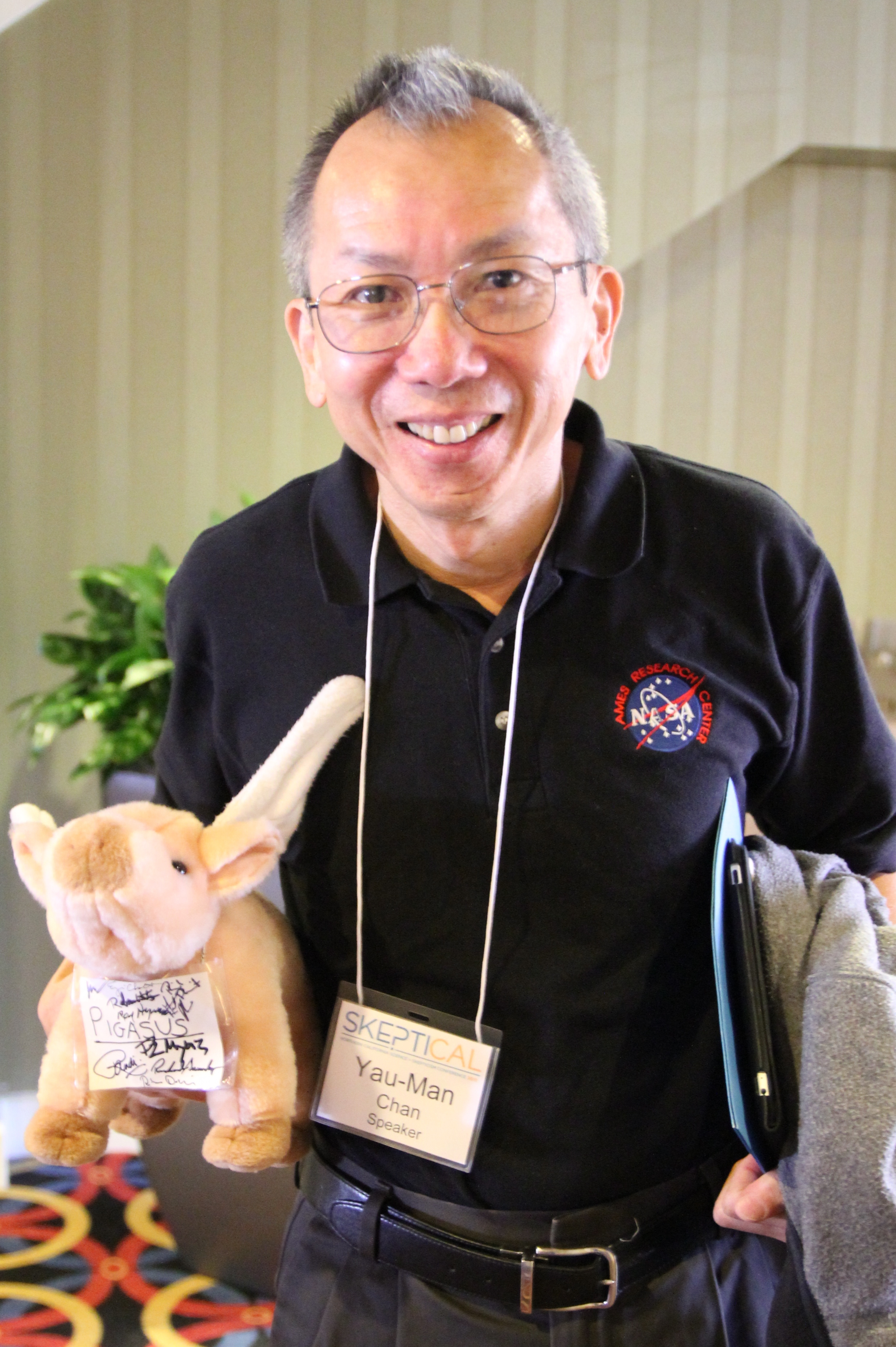 Yau-Man Chan lectured at SkeptiCalCon May 29, 2011 in Berkeley, CA